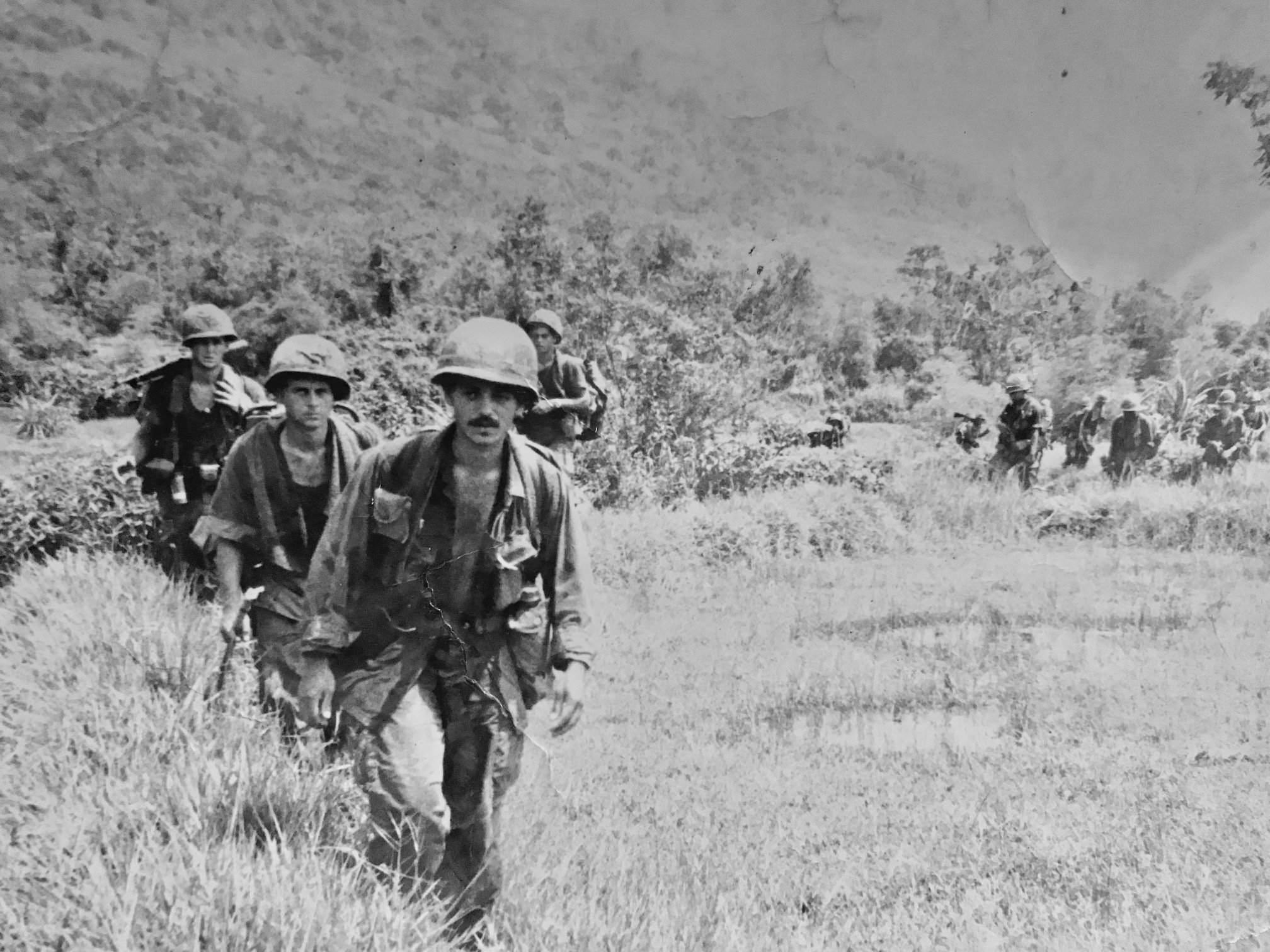 Specialist Four Florencio Rivera, Jr., leads the 4th Battalion, 31st Infantry before encountering intense ground attack in Landing Zone, Republic of Vietnam.